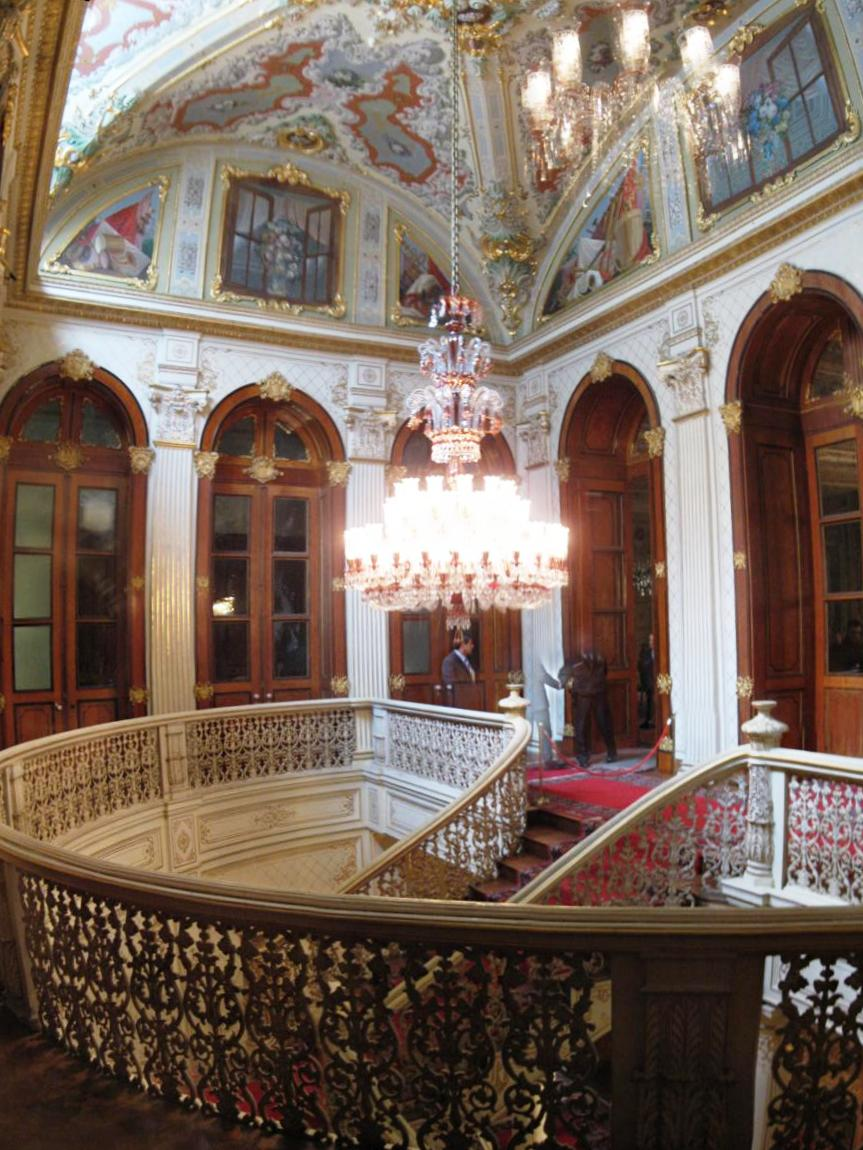 The Caliph's staircase (Halife Merdivenleri) at Dolmabahçe Palace. (#19 of the tour.)